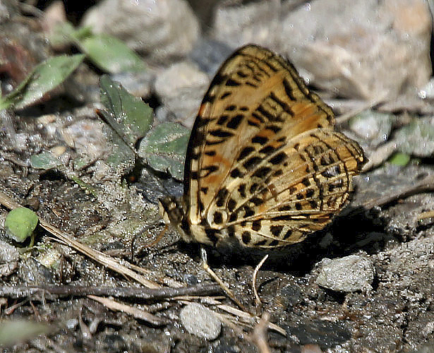 Bluetail Jester Symbrenthia niphanda. Shot taken on way to Guna Pani(around 7500 ft.), Kullu distt. of Himachal Pradesh, India during Sar Pass Trek.